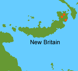 Red: Taulil language.Orange: Baining and Mali languages